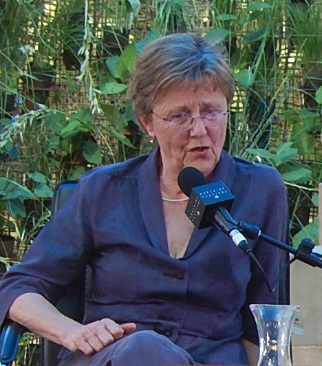 Helen Garner at Adelaide Writer's Week